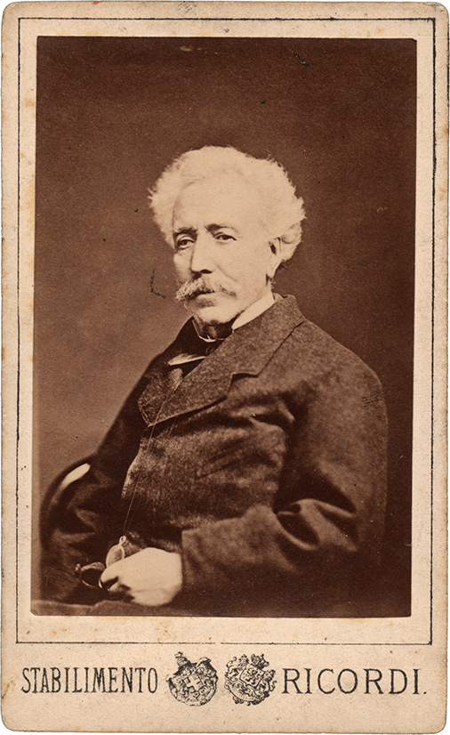 Portrait of Felice Varesi, baritone (1813-1889). Photo by unknown, before 1889.